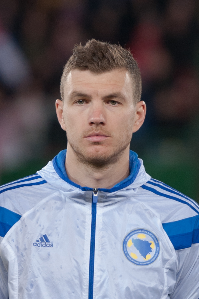 International friendly Austria vs. Bosnia and Herzegovina, 2015-03-31, Vienna